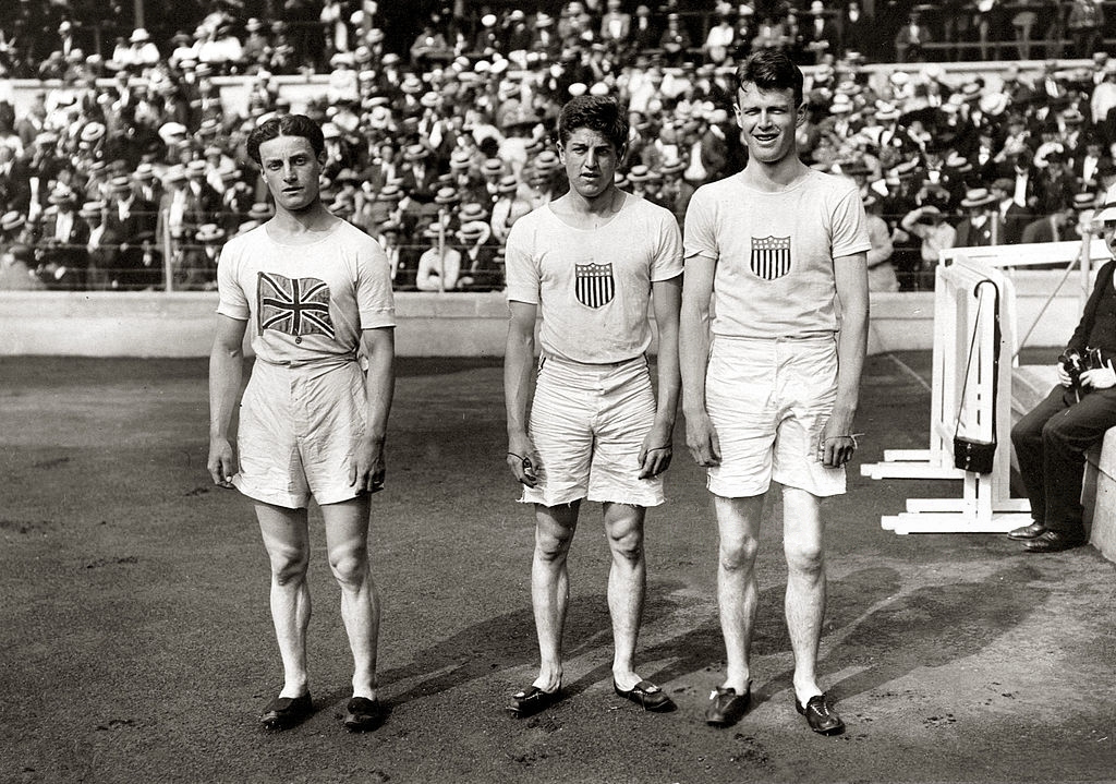 Sport, 1912 Olympic Games, Stockholm, Sweden, Athletics, Mens 200 metres, The medal winners, L-R: William Applegarth, Great Britain, (Bronze), Donald Lippincott, U,S,A, (Silver) and Ralph Craig, U,S,A